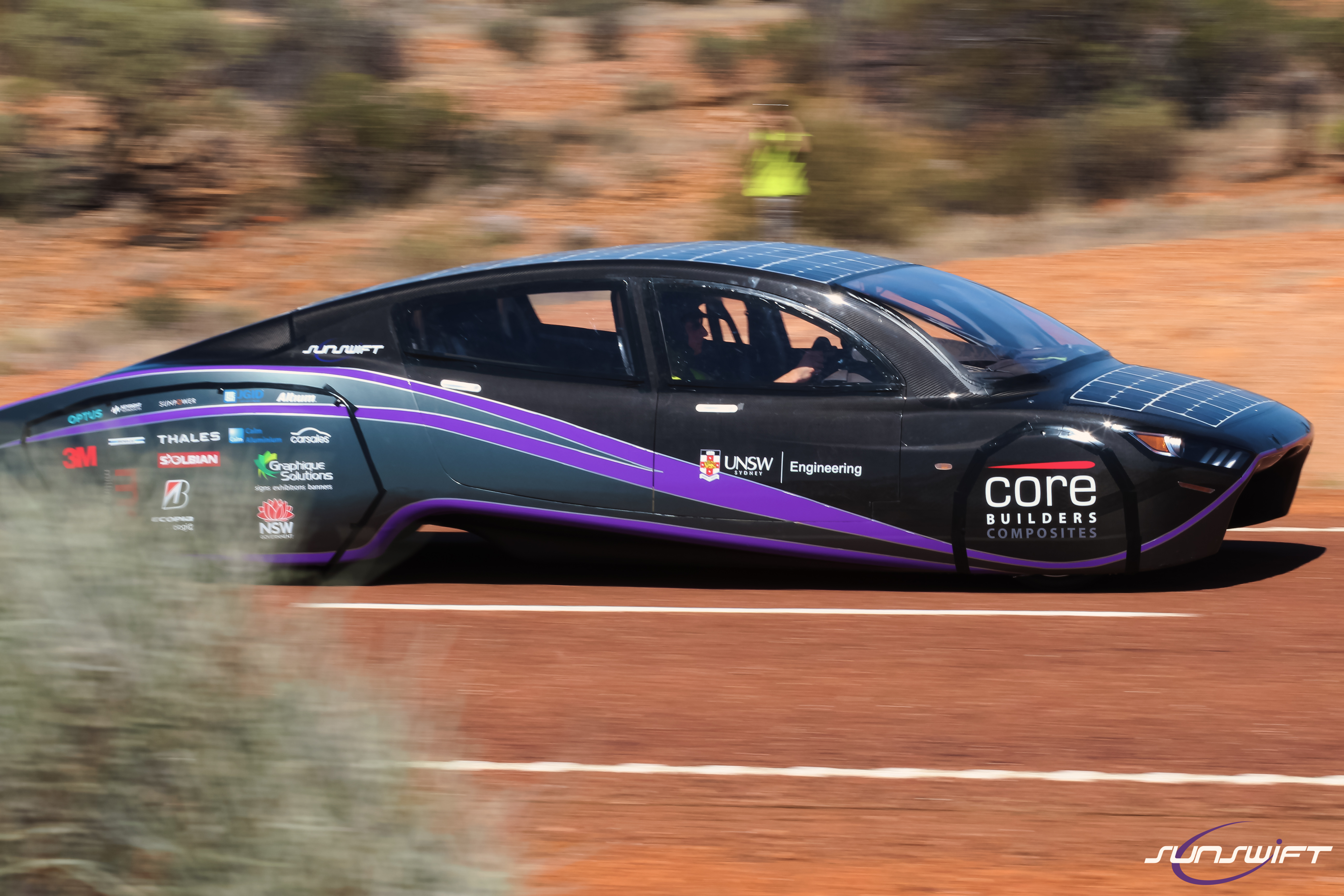 Apperance of Sunswift's latest model Violet